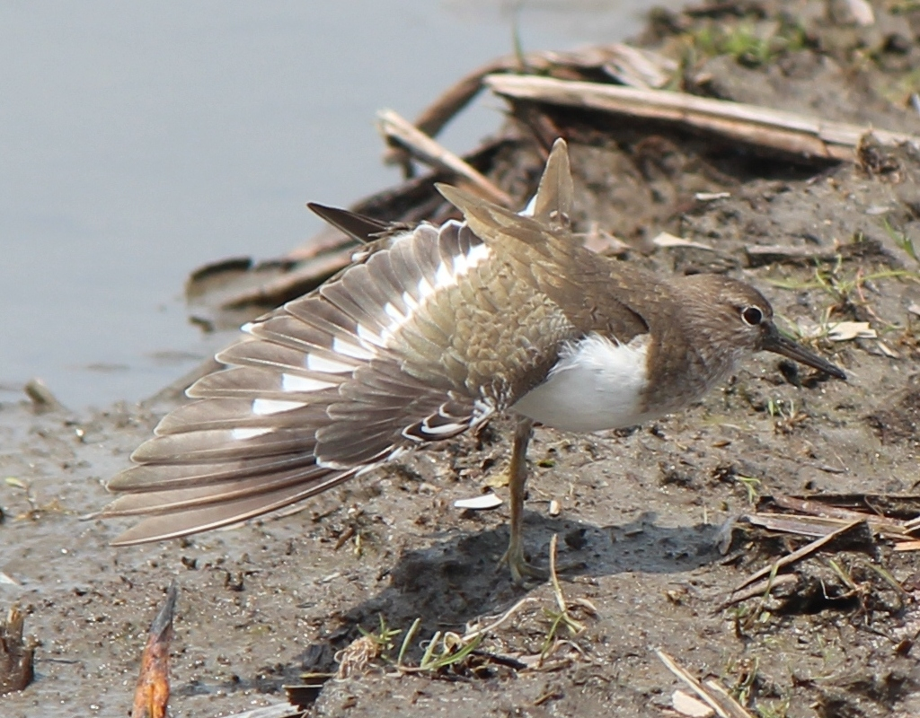 Actitis hypoleucos (Common Sandpiper) extended wings on one leg in Japan